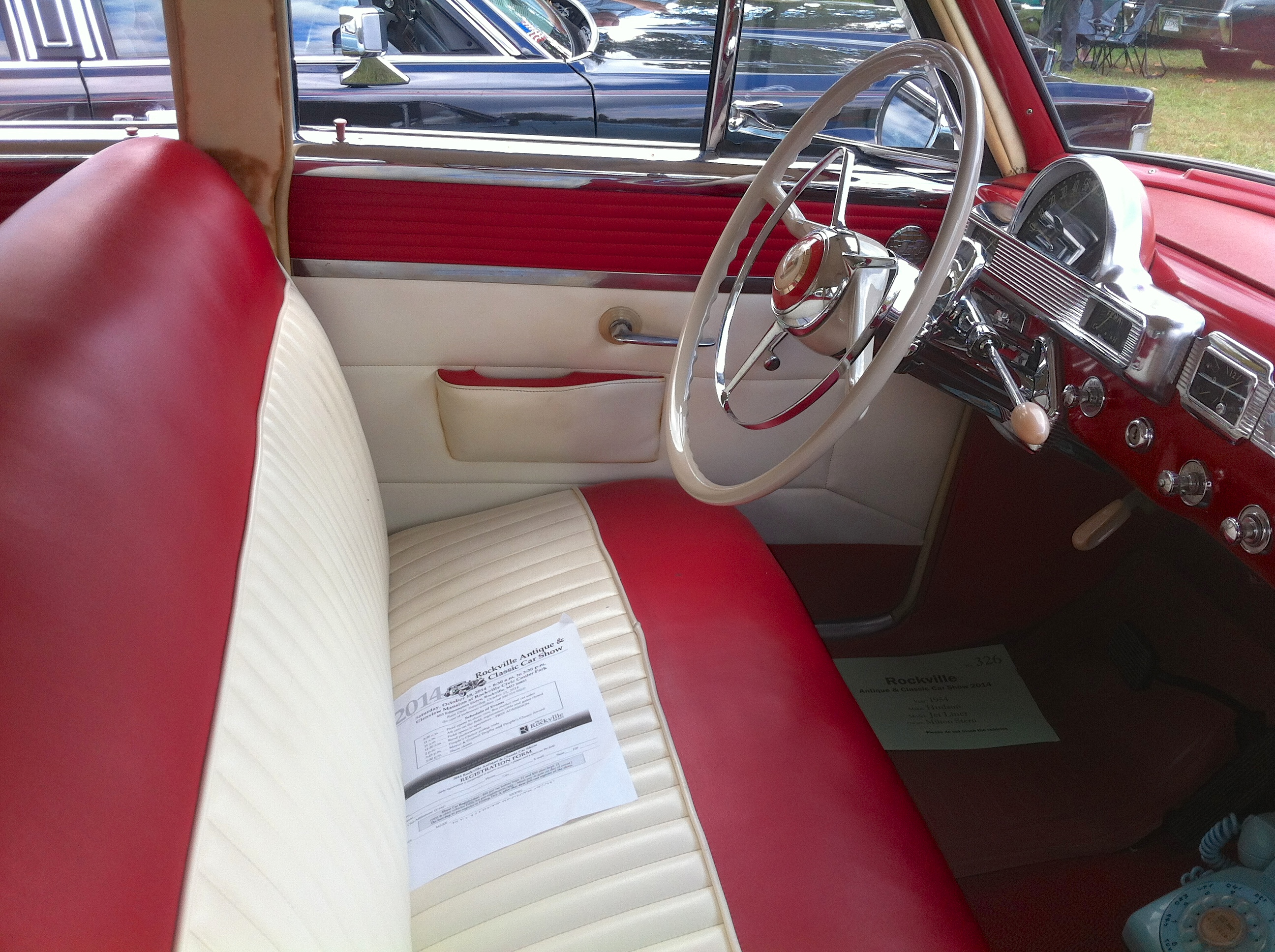 1954 Hudson Jet, a small-sized automobile. This is the top-of the line "Liner" model. Picture taken at the 2014 Rockville Antique and Classic Car Show held at the Rockville Civic Center Park in Maryland.